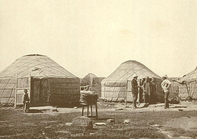 Mongolian jurts in the 19th century